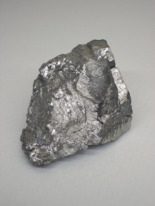 Dysprosium metal